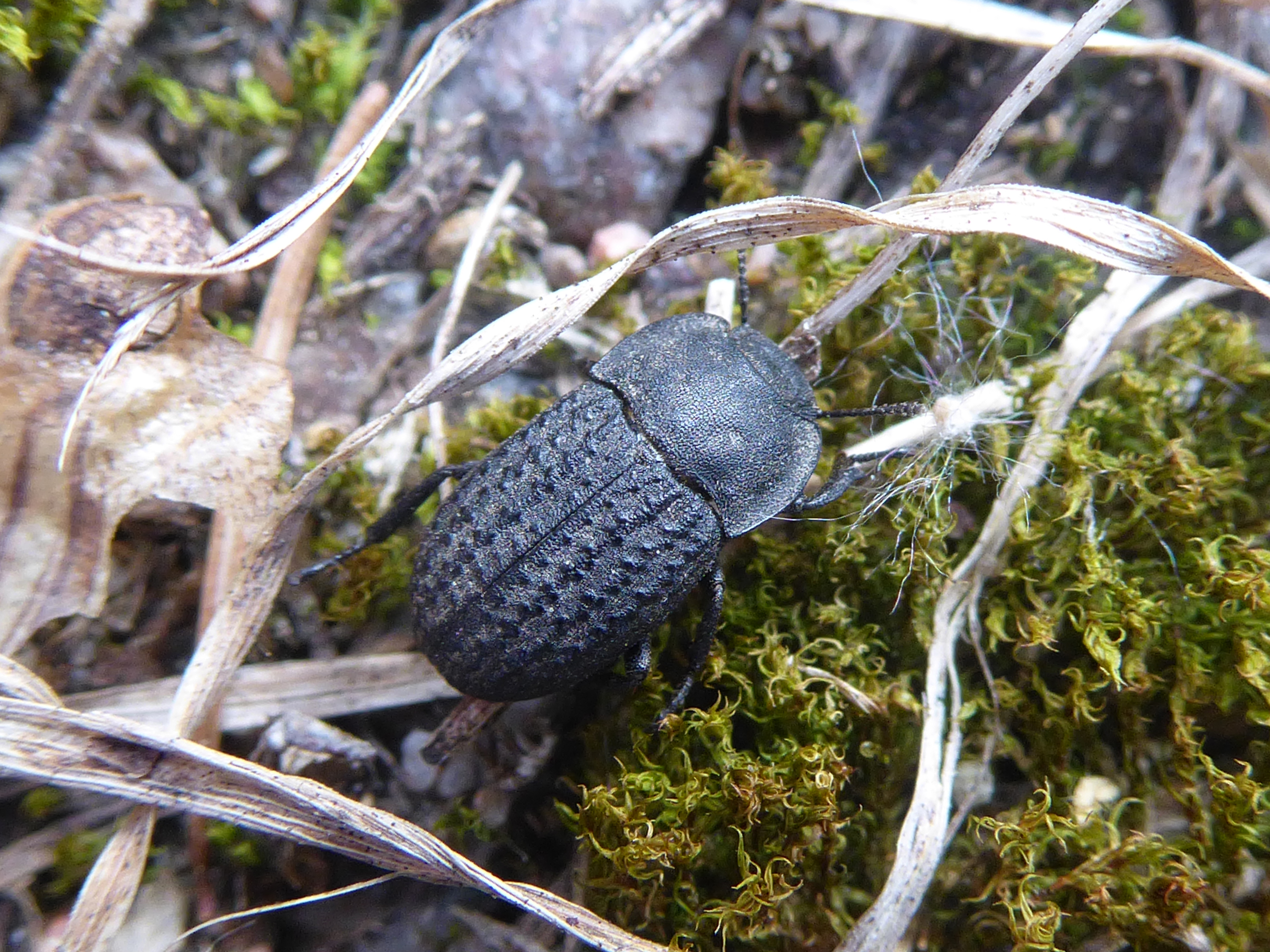 Opatrum sabulosum, Paludi (Segonzano, Trentino, Italy)